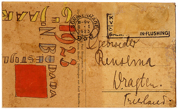 Theo van Doesburg. Postcard to Thijs and Evert Rinsema (verso of postcard Kurt Schwitters). 1923.